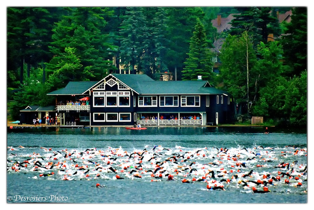 Swim Ironman Lake Placid 2012